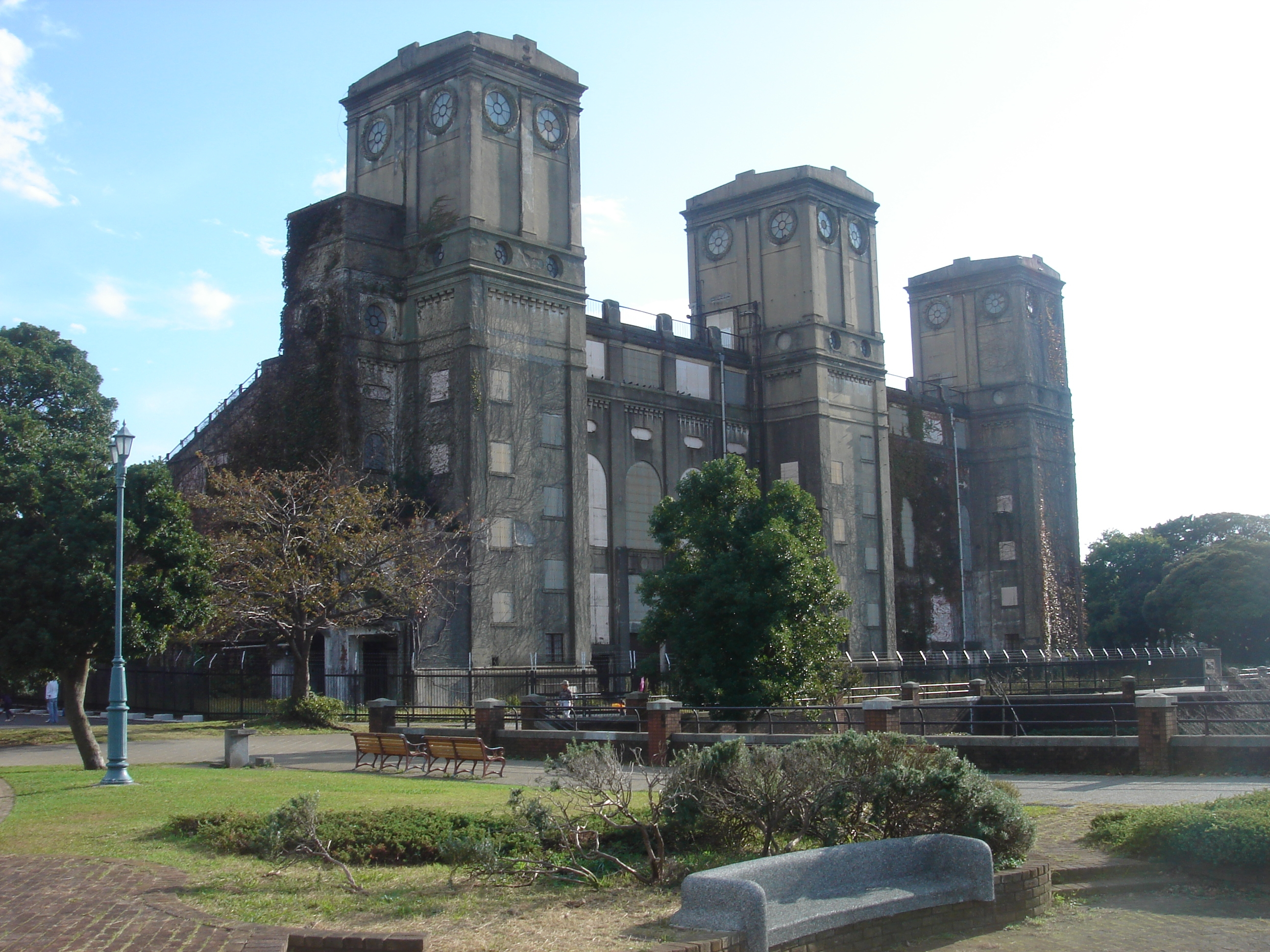 Ruins of Yokohama racetrack